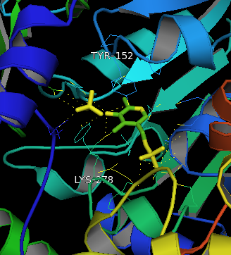 zoom of binding site ACS